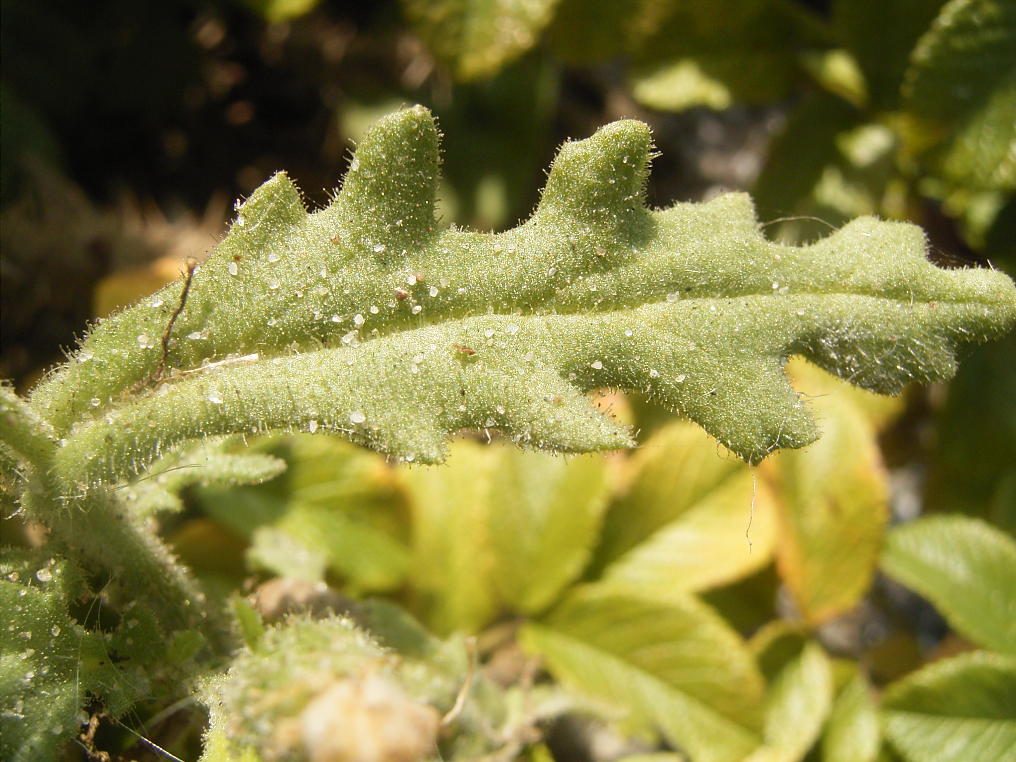 This photo shows Senecio viscosus